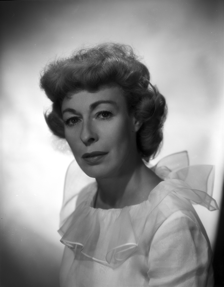 Actress Eileen Heckhart